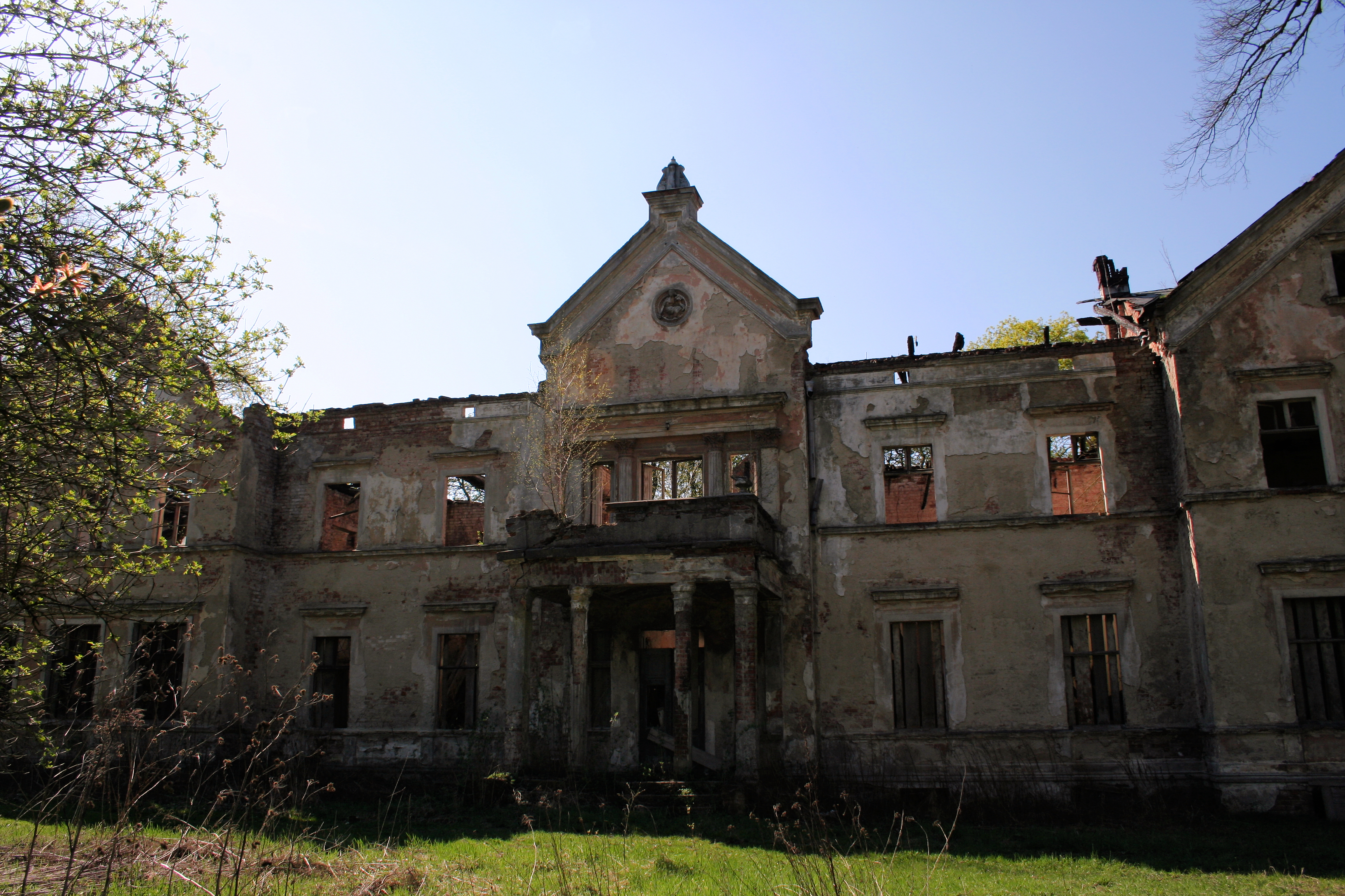 Palace in Grzymiradz